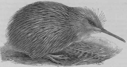 Brown Kiwi (Apteryx bulleri) baby.